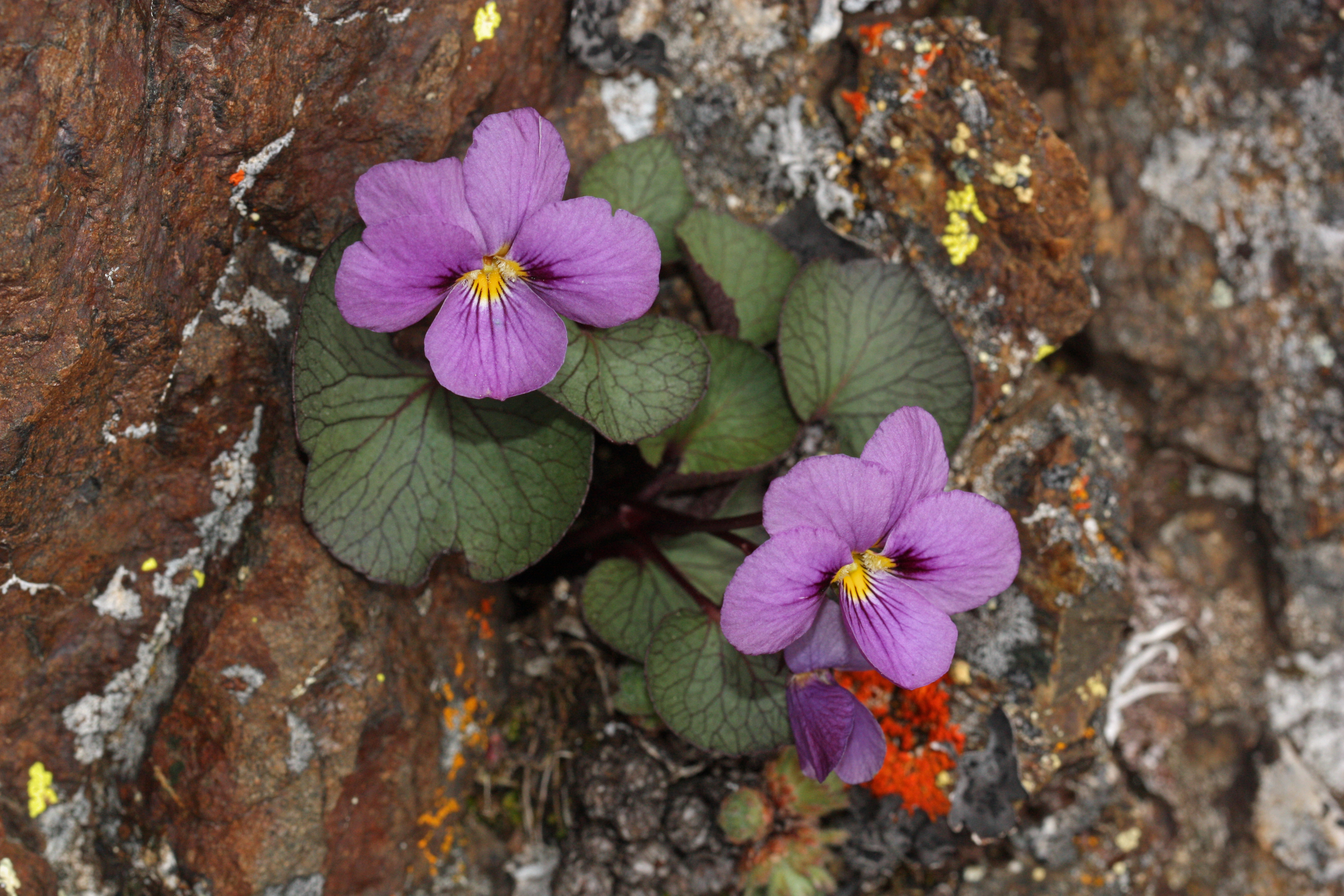 Olympic Violet, Flett's Violet Viewpoint location: northern Olympic Mountains (location withheld; rare species; the location of the Hurricane Ridge Visitor Center has been substituted for the actual location), Olympic National Park Viewpoint elevation: 1748 meter (5735 ft) Location source: Garmin GPSmap 60CSx Location Datum: WGS84